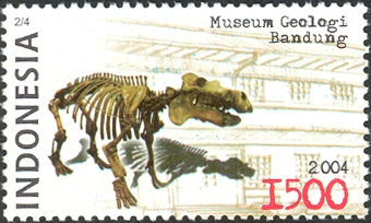 Stamps of Indonesia